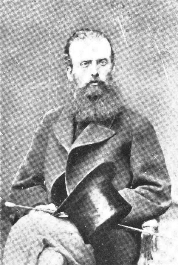 Konrad Chmielewski